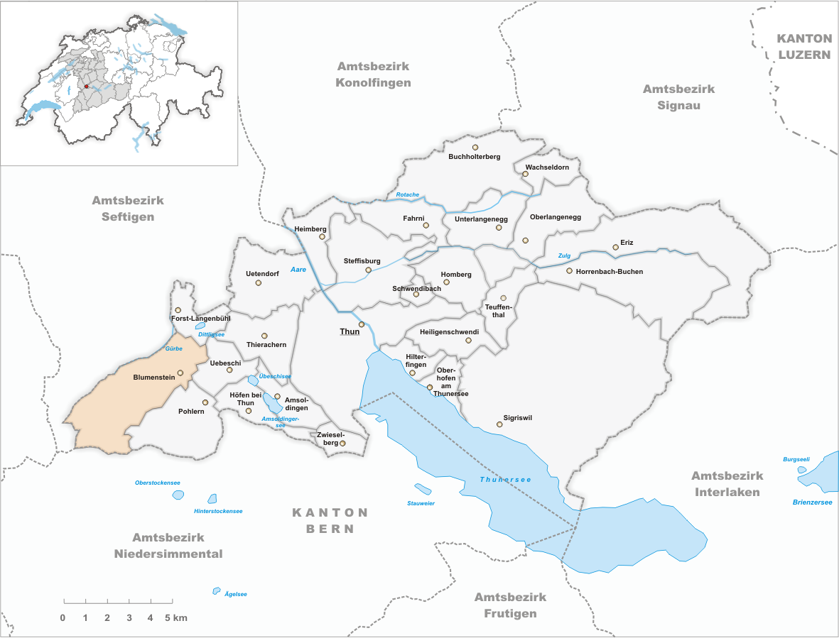 Municipality Blumenstein